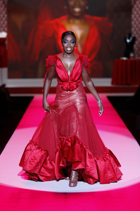 The Heart Truth® is a national awareness campaign for women about heart disease sponsored by the National Heart, Lung, and Blood Institute (NHLBI), part of the National Institutes of Health, U.S. Department of Health and Human Services (HHS). The Red Dress®, introduced by the NHLBI in 2002, is the national symbol for women and heart disease awareness. Visit for information on women and heart disease. ®, TM The Heart Truth, its logo and The Red Dress are trademarks of HHS. Participation by Mercedes-Benz Fashion Week, Diet Coke, Swarovski, Tylenol, St. Joseph's Aspirin, Bobbi Brown, and Brian Atwood does not imply endorsement by HHS.